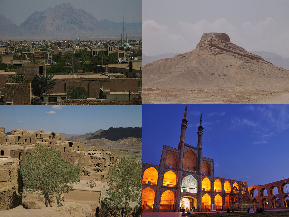 Locator map of Iran